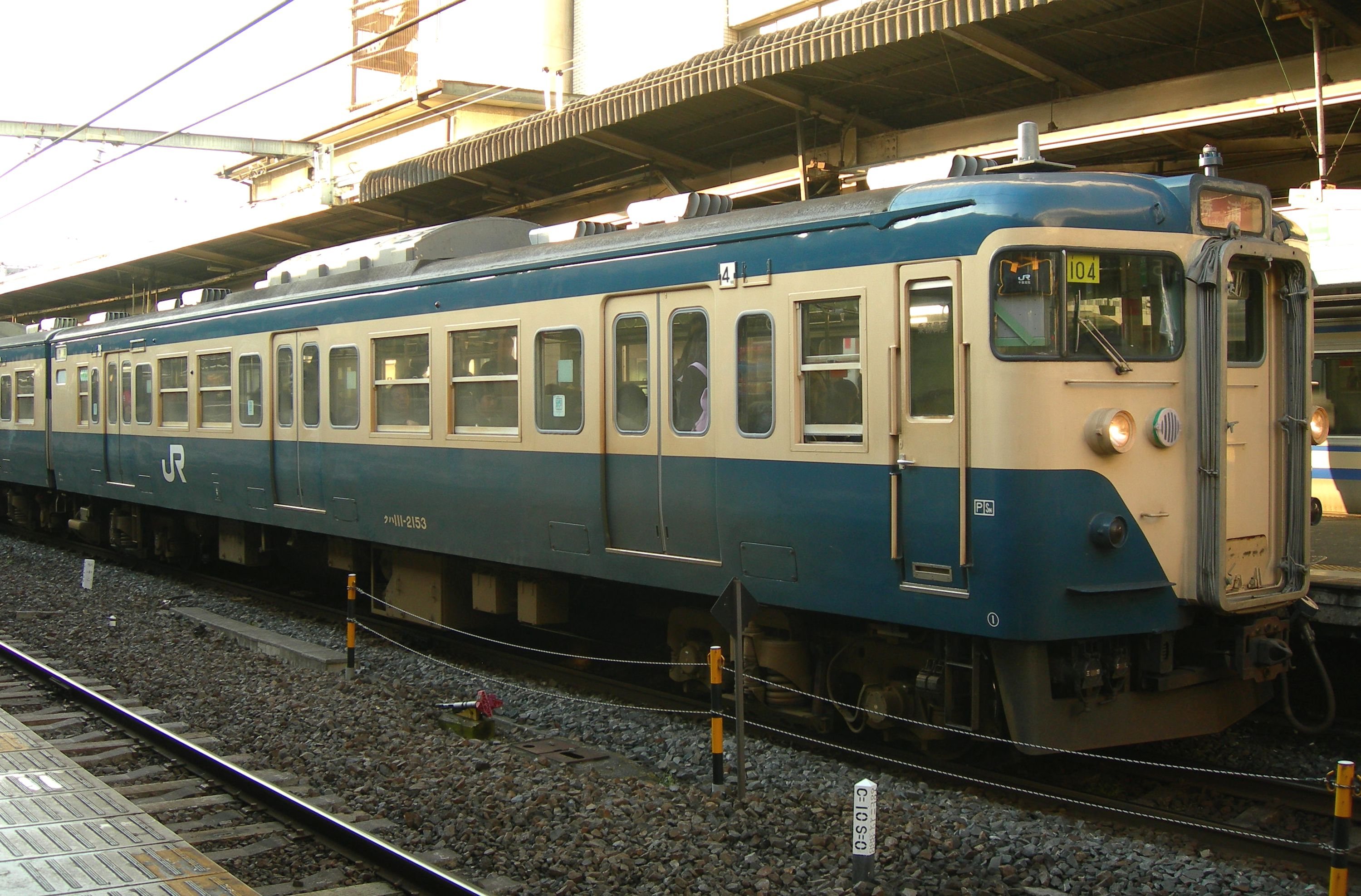 A JR East 113 series EMU (led by car KuHa 111-2153) at Chiba Station